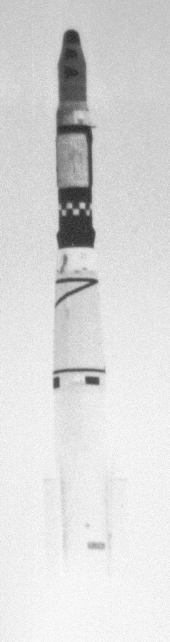 Launch of Thor SLV-2A Agena D with spy-satellite Corona 81